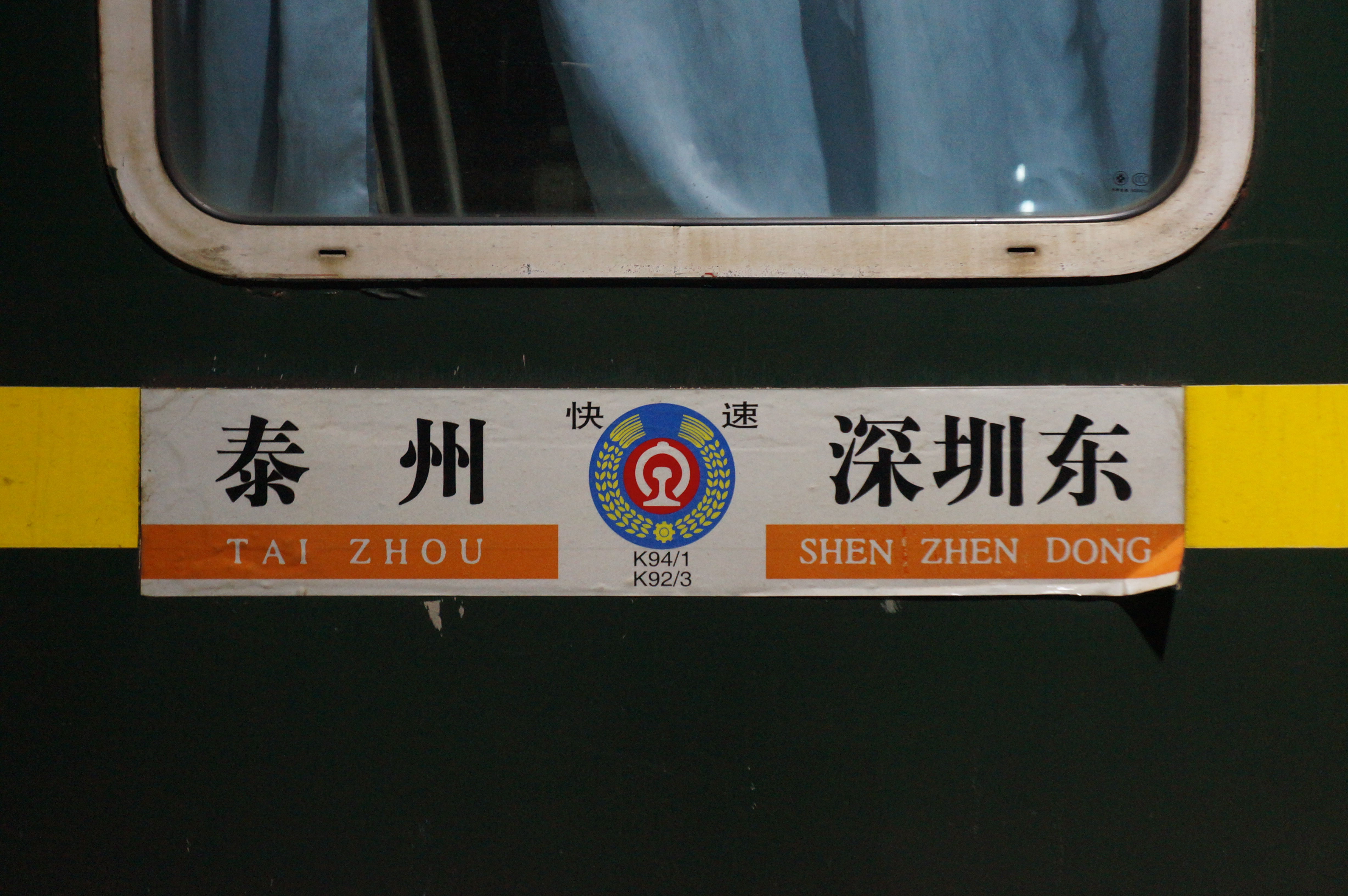 K91,2,3,4 info board in 201612. Trains served by SR always have beautiful direction board